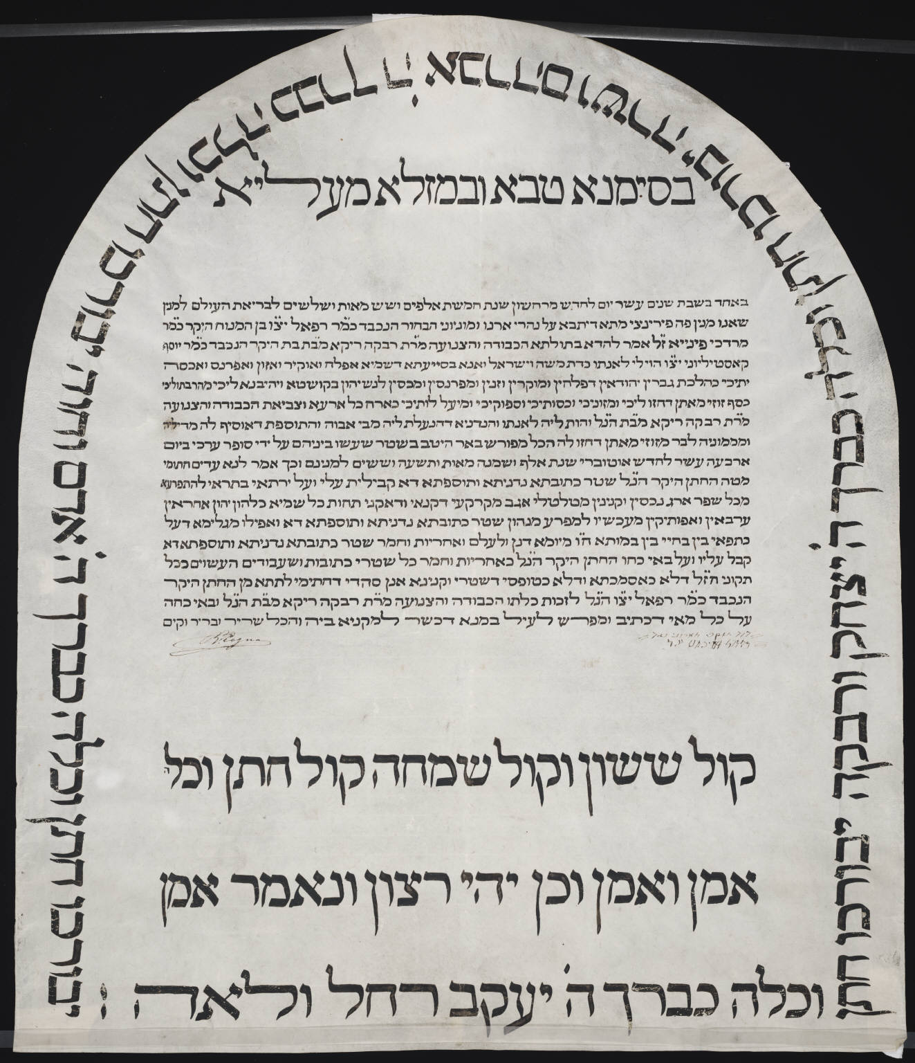 A traditional illustrated ketubah (Jewish marriage contract).